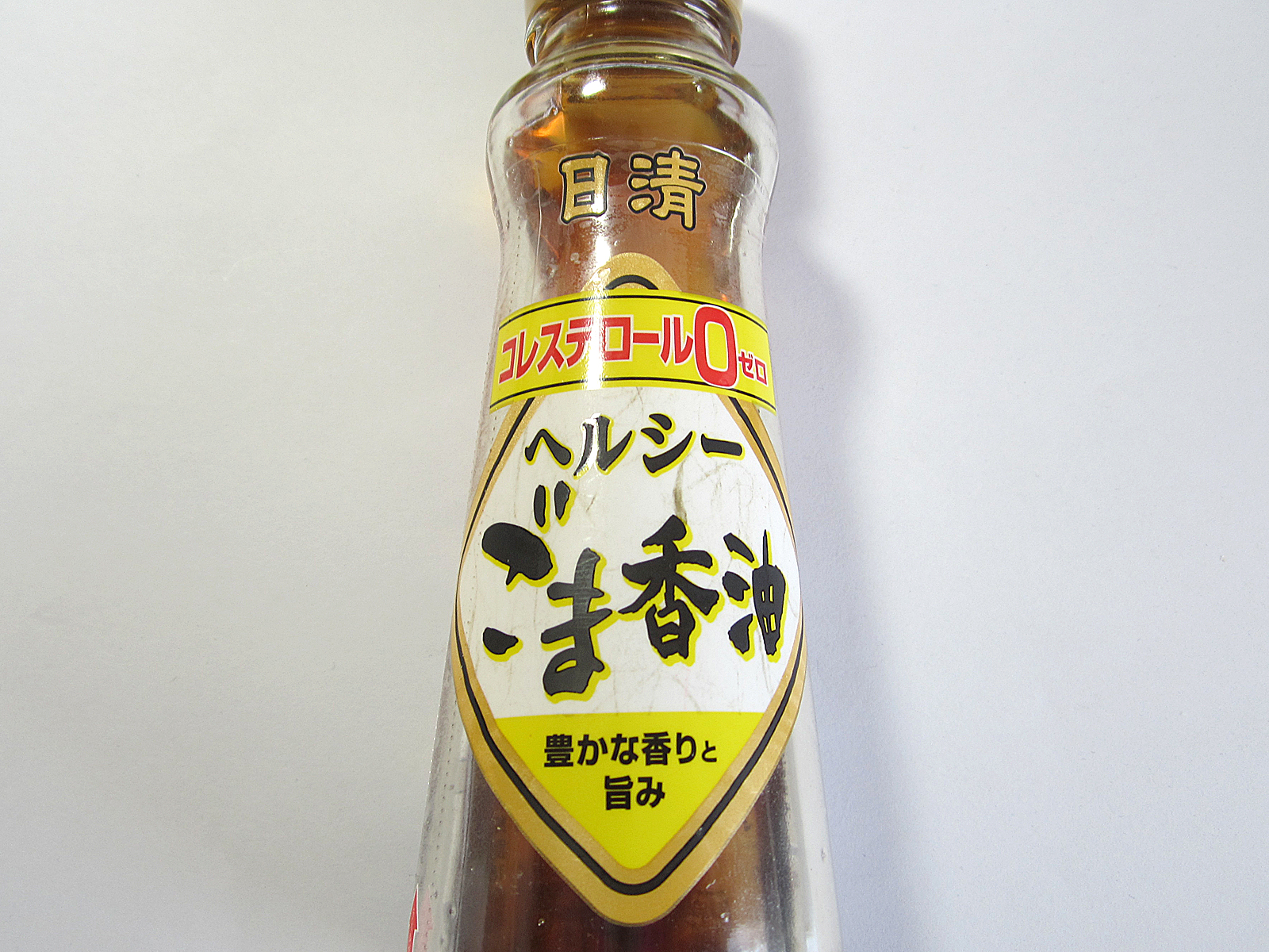 Nisshin Oillio Health Sesame Oil (sesame oil and rapeseed oil).